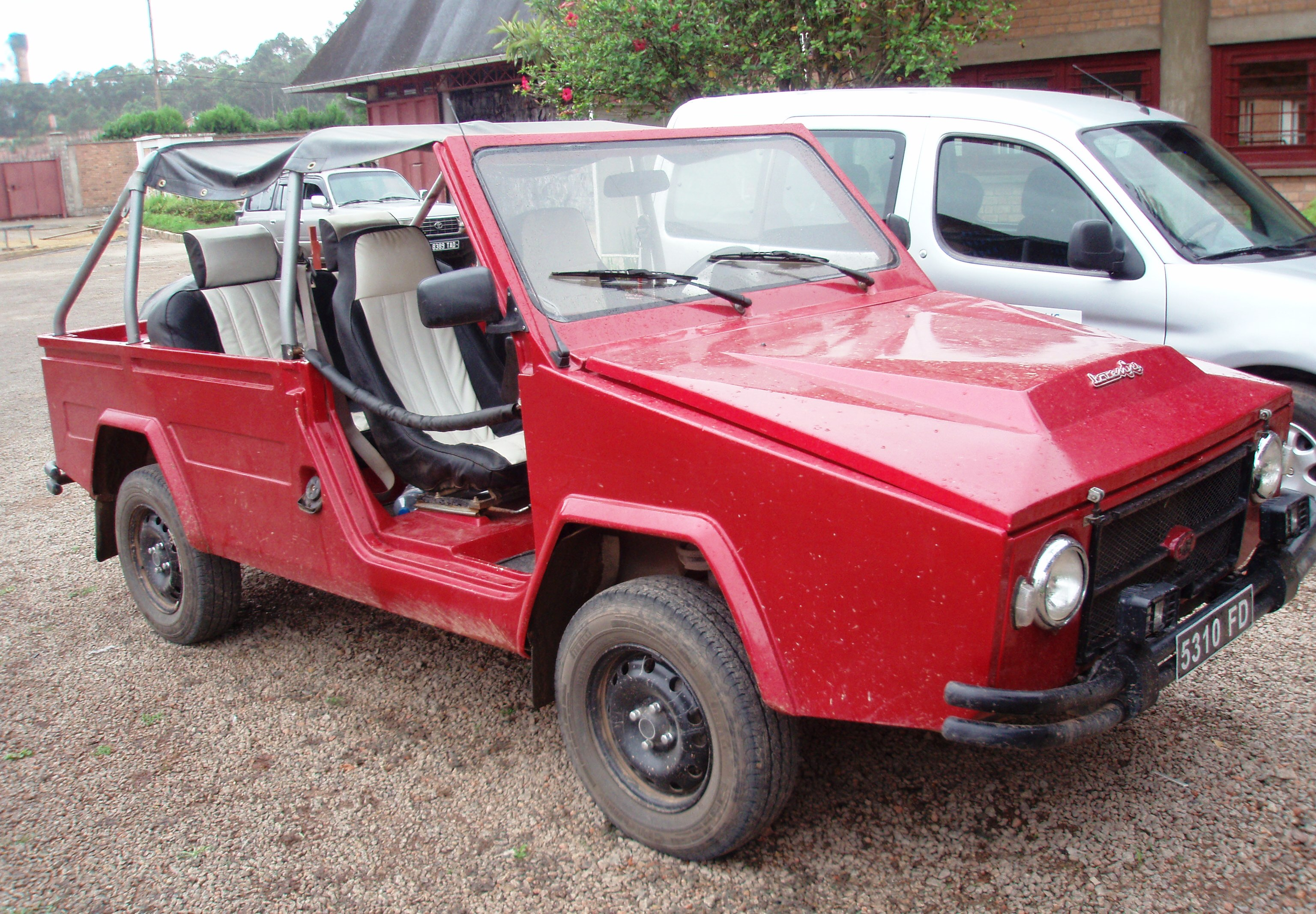 Karenjy Mazana, prototype with front engine